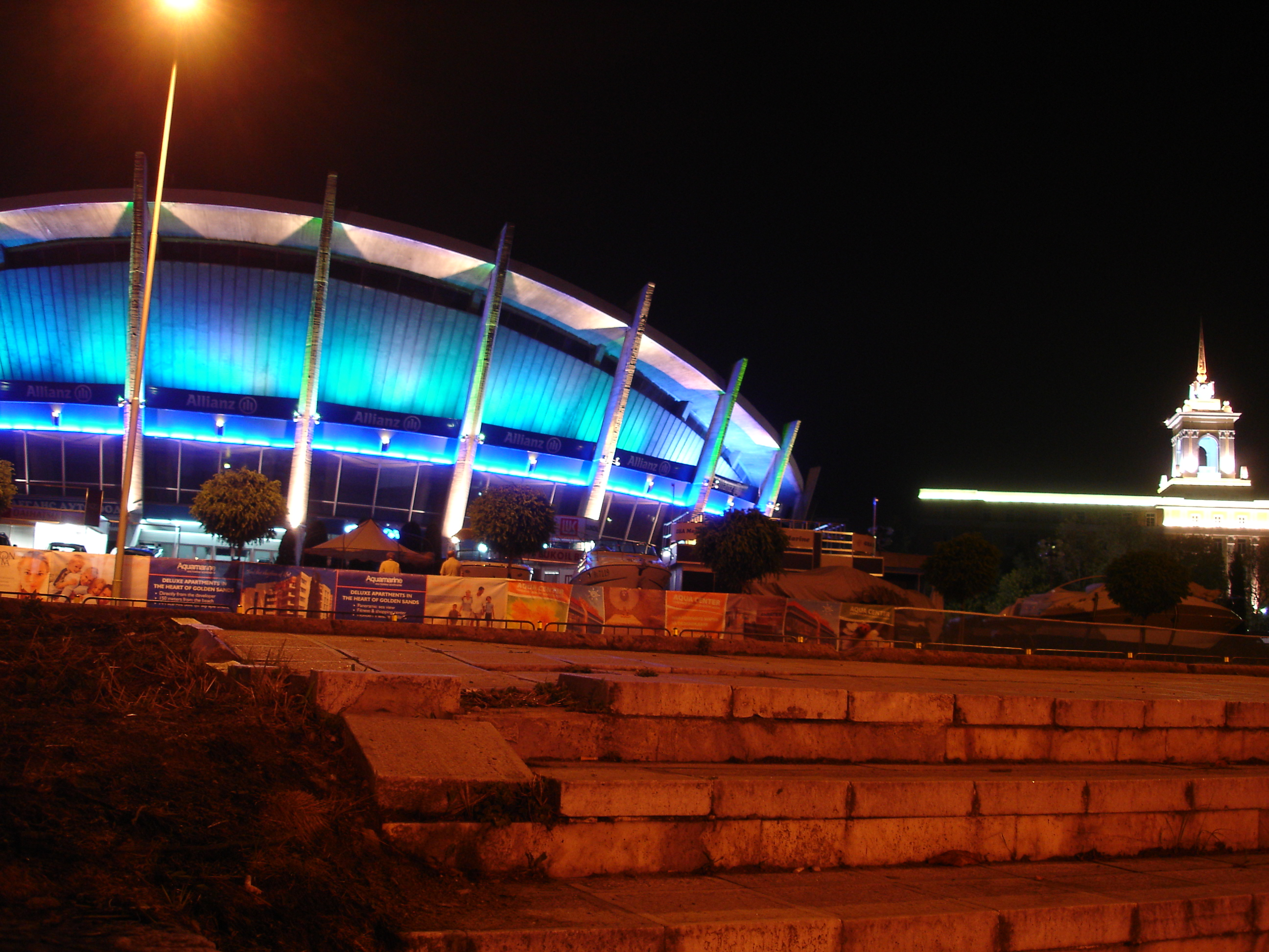 The Palace of Sport and Culture, Varna, Bulgaria